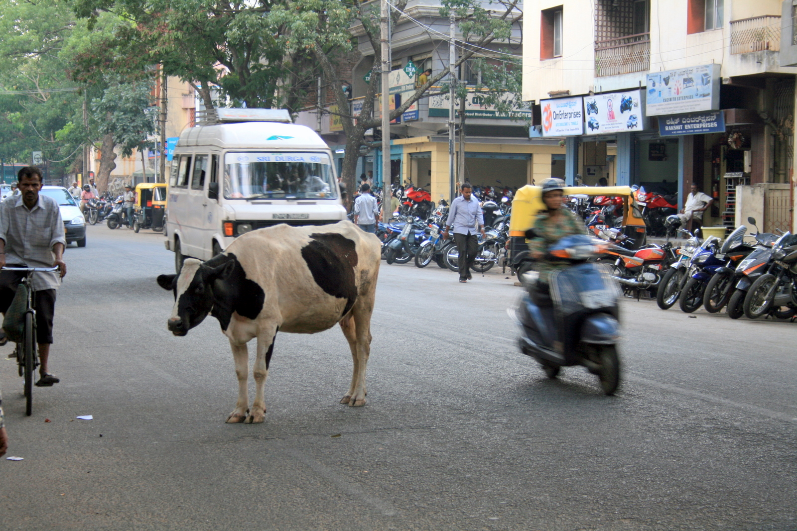 Cow in Bangalore